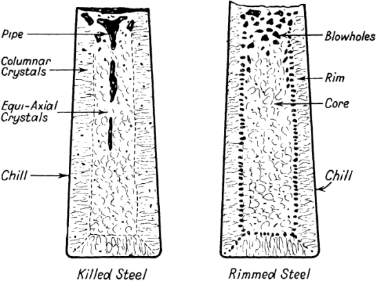 Casting ingot defects. Comparison between killed steel and rimmed steel.